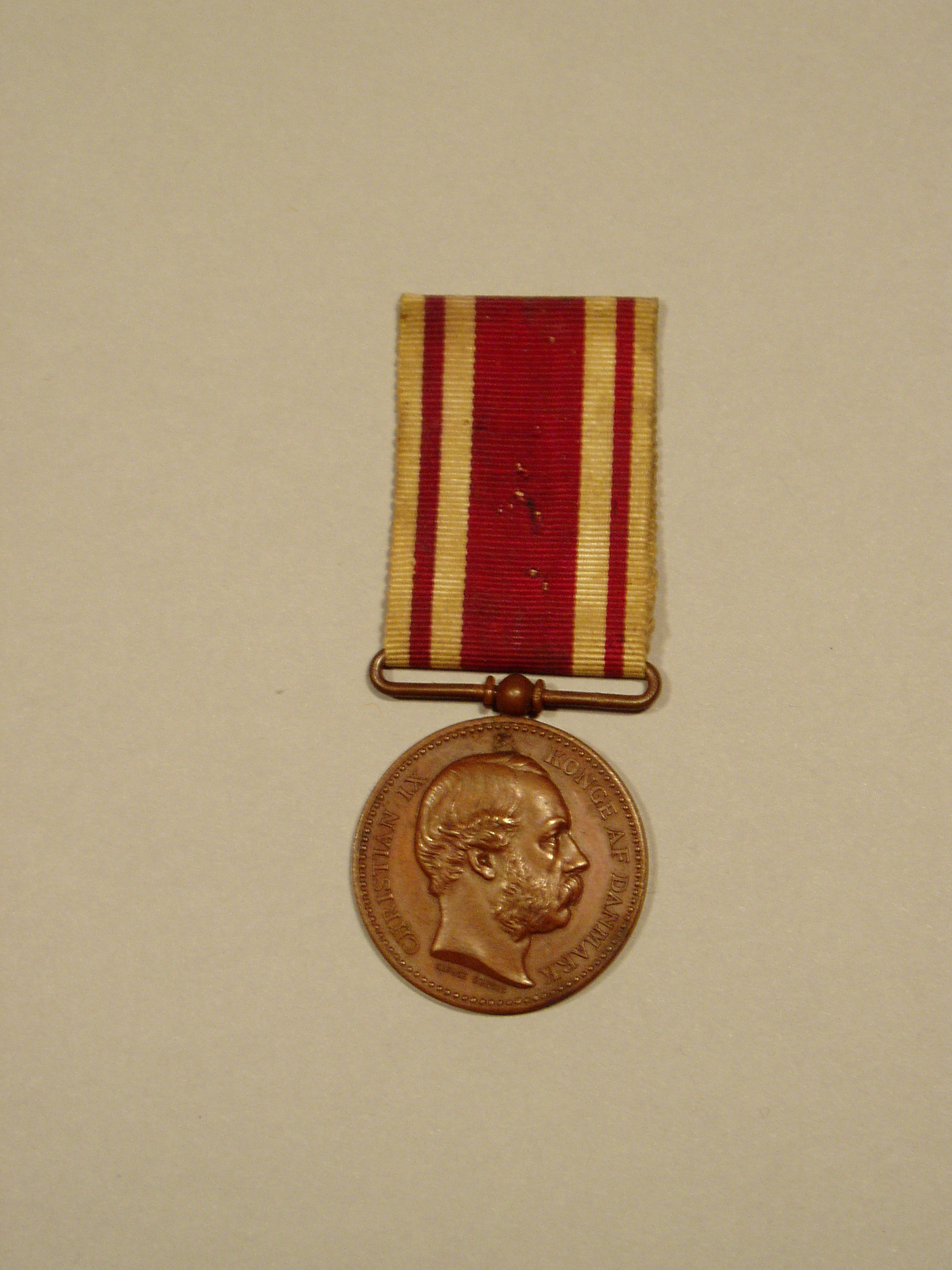 Medal given to the Danish veterans of the 2. Slesvig War 1864. Avers.